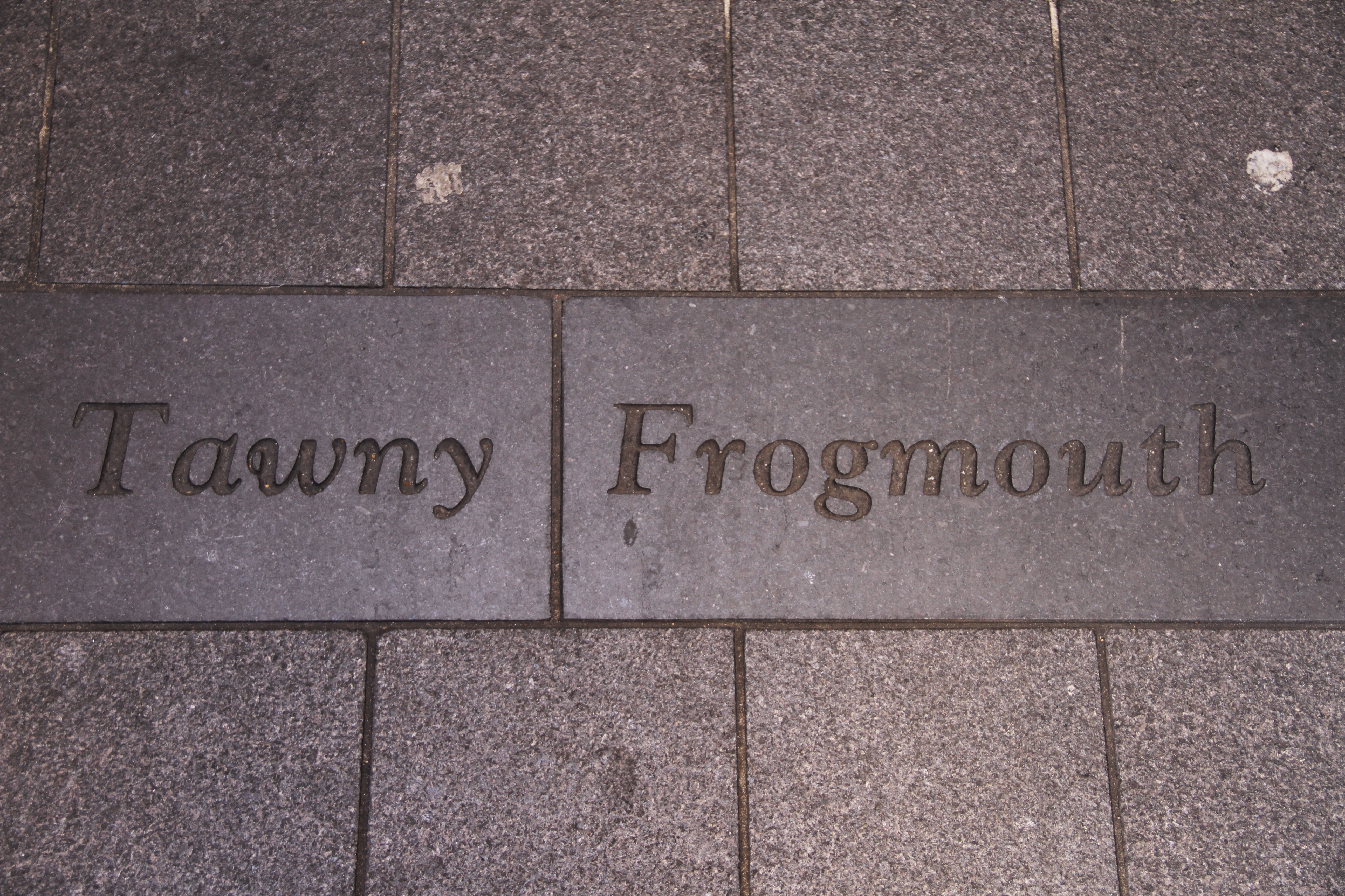 Forgotten Songs artwork, Birds species names as part of the street pavement